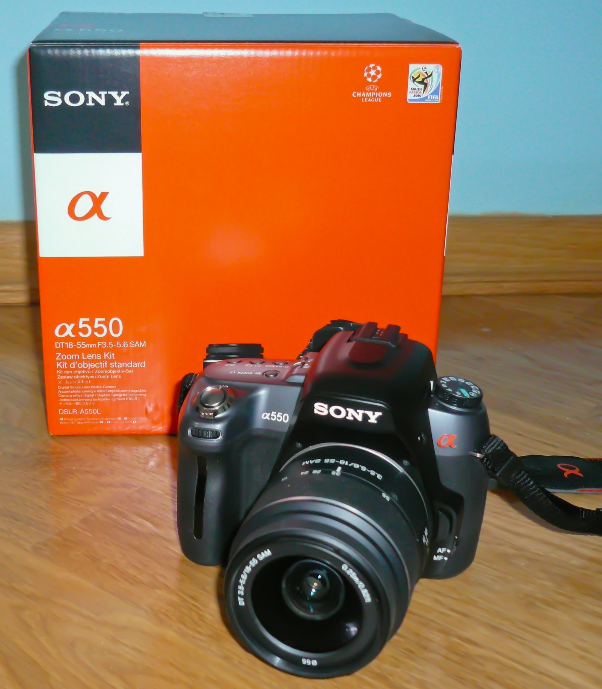 Sony α550 DSLR Camera